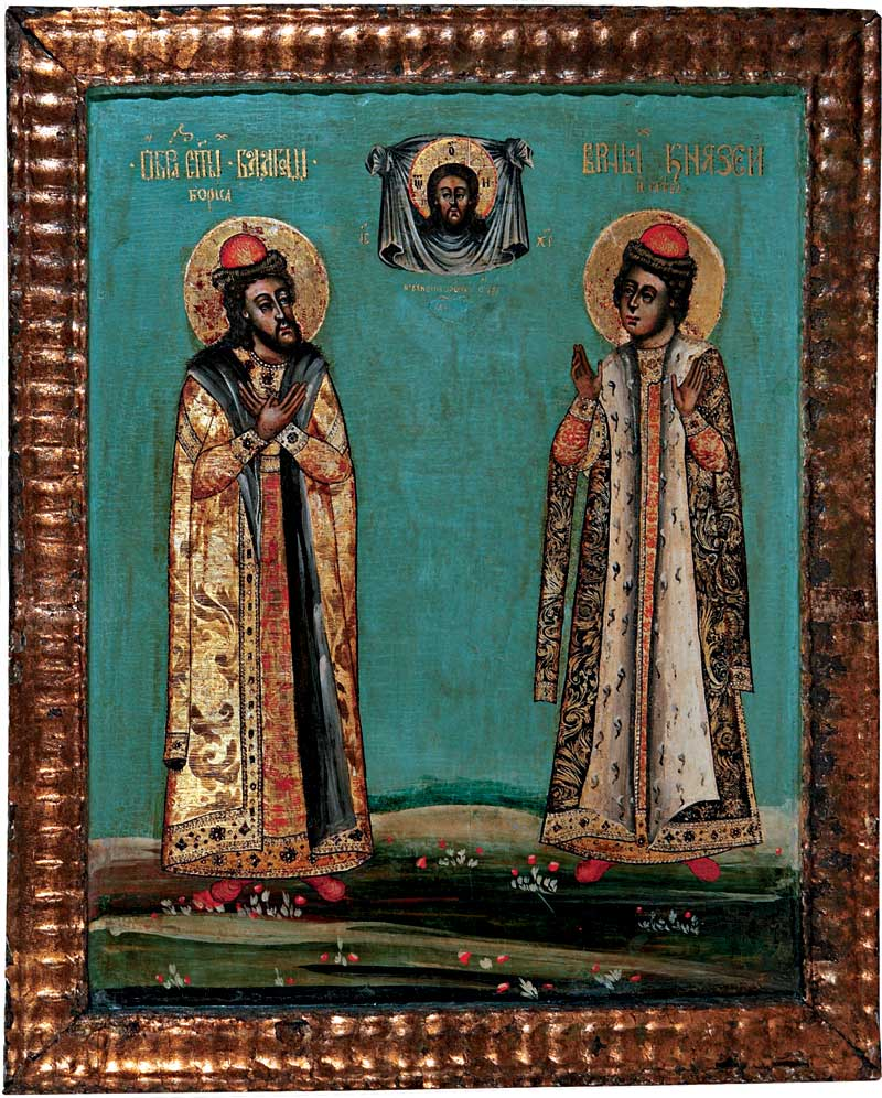 Boris and Gleb